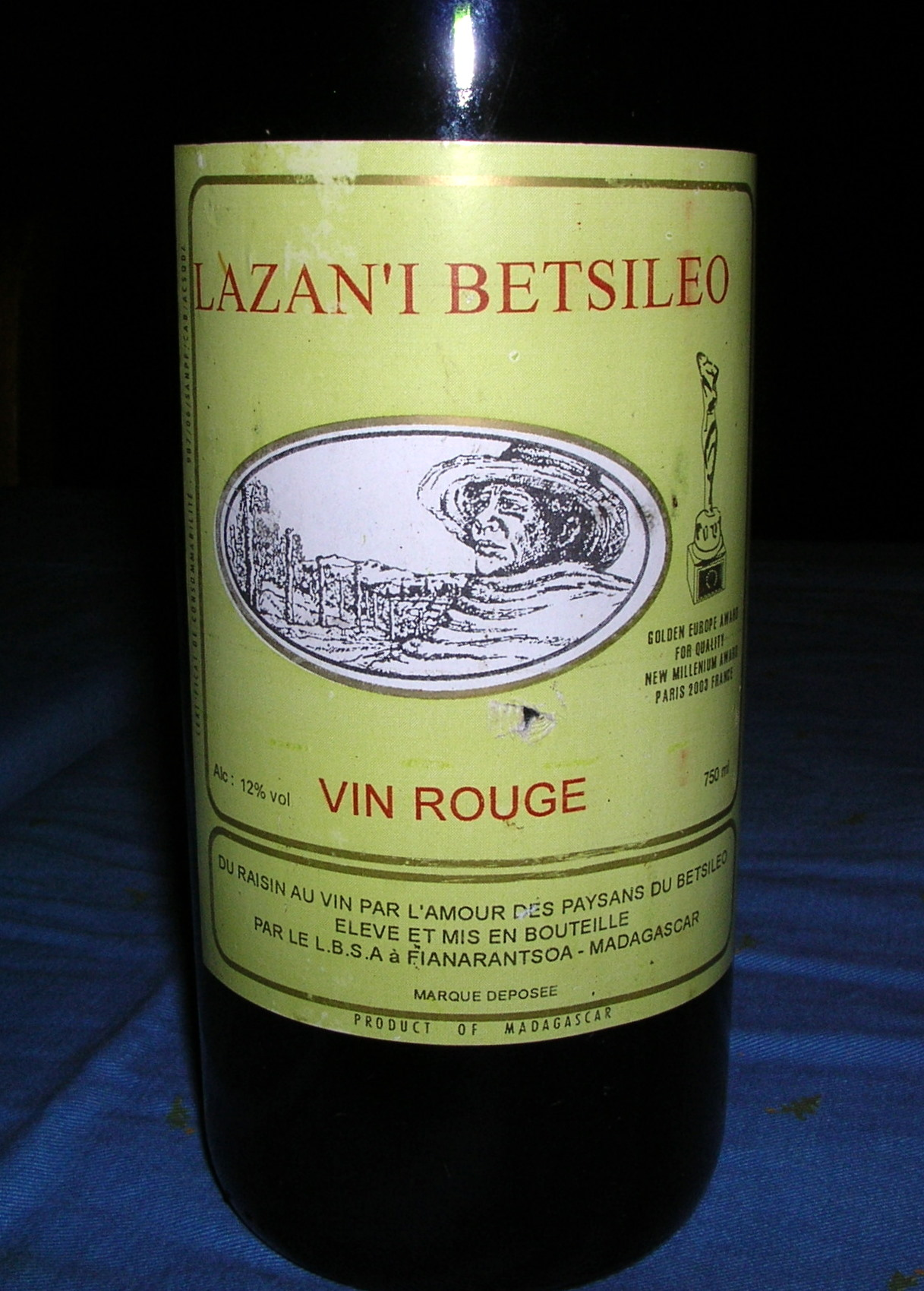 Red wine Lazan'i Betsileo, Fianarantsoa, Madagascar